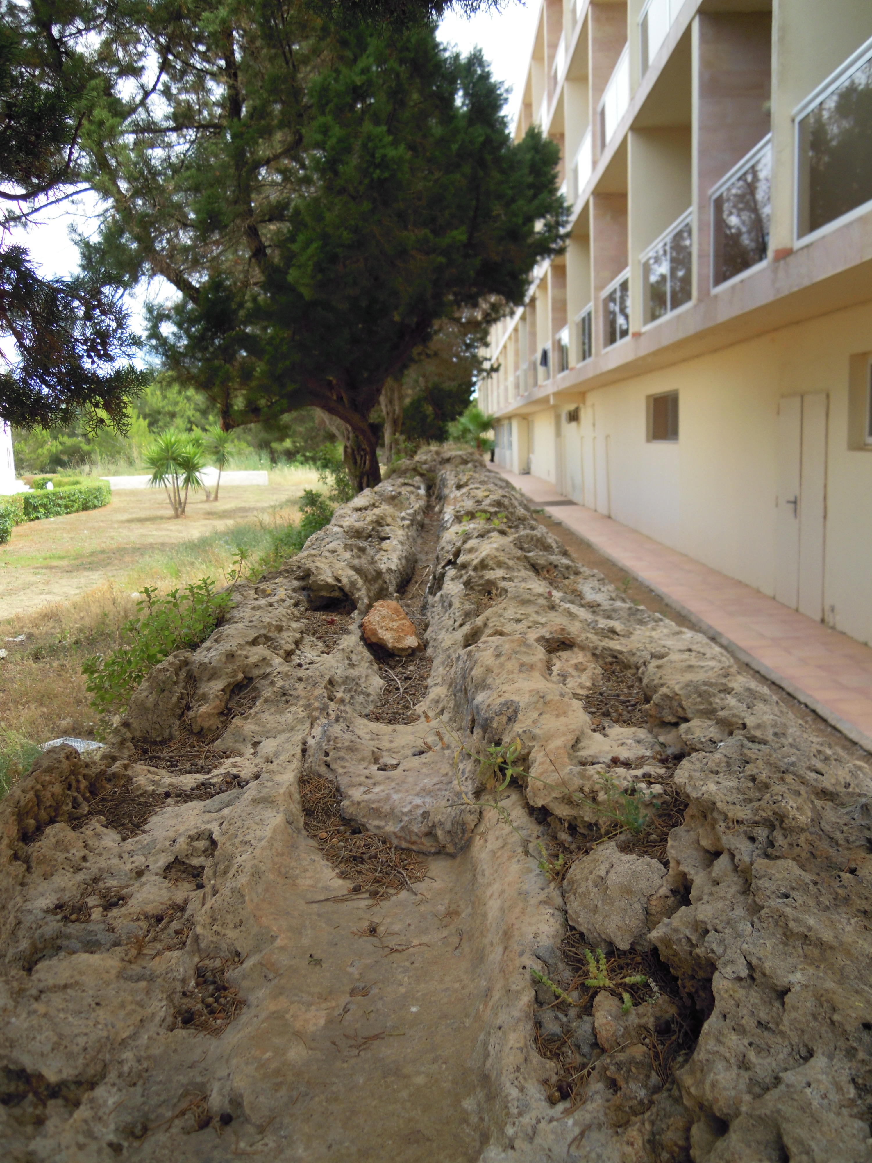 The Roman aqueduct remains of S’Argamassa Roman Fish Farm, in Santa Eulalia, Ibiza, Spain